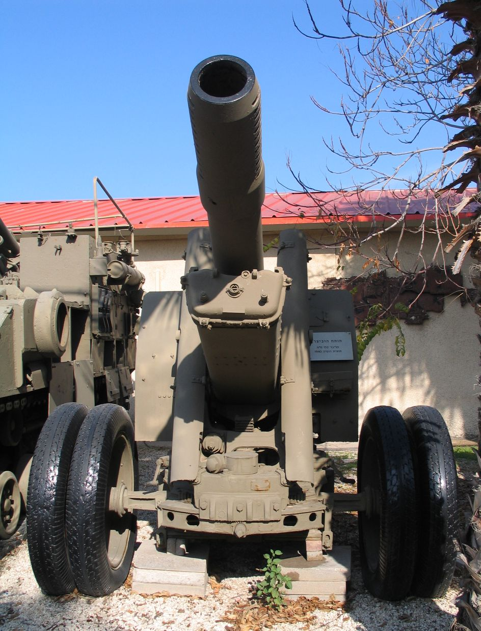 Description: Soviet ML-20 152 mm howitzer in Batey ha-Osef Museum, Tel Aviv, Israel. Source: Photo by me, User:Bukvoed.